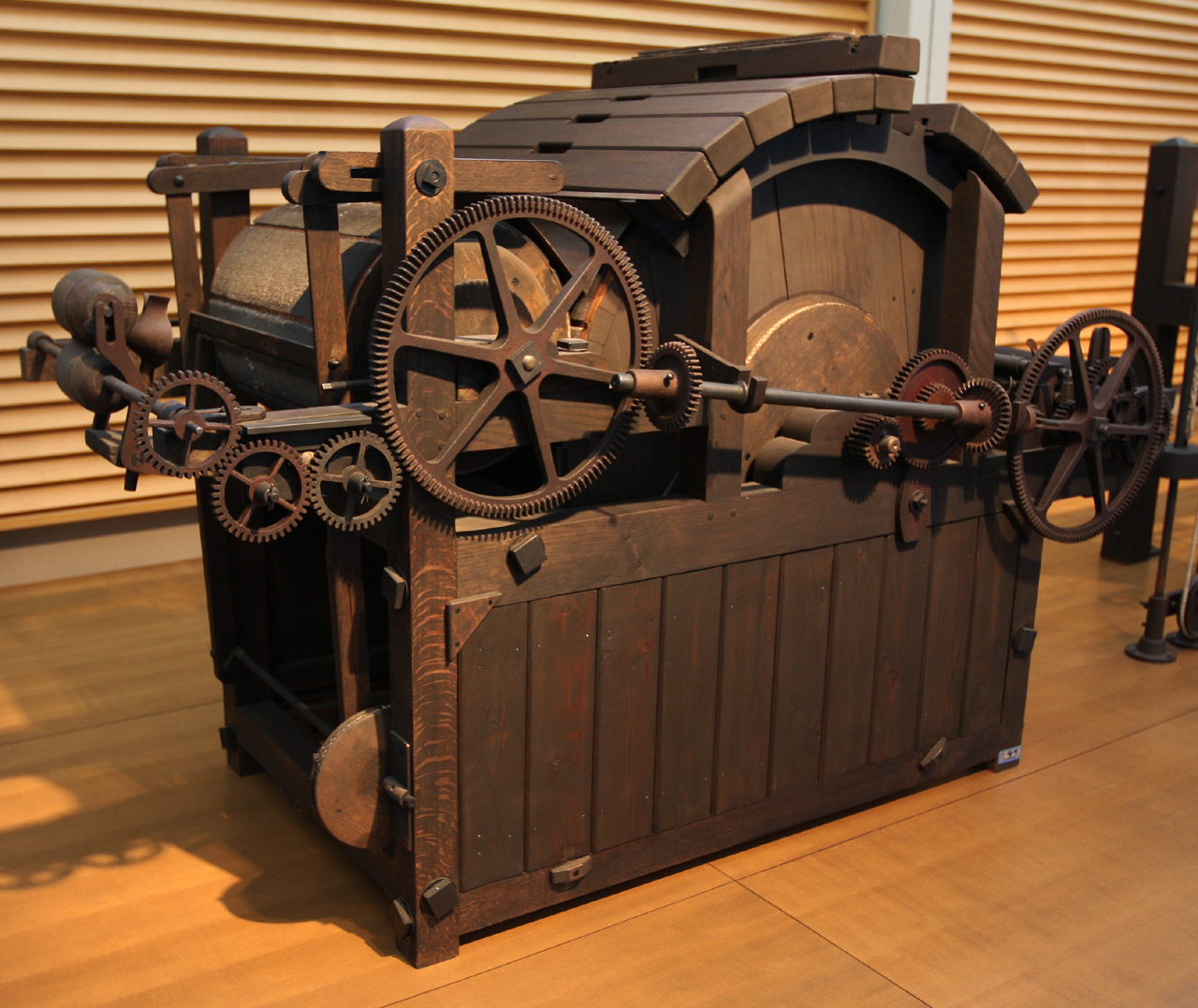 Arkwright's Carding Engine (replica)